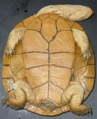 Ventral view of the holotype of Chelodina steindachneri (NMW19798) from the Naturhistorische Museum in Vienna.